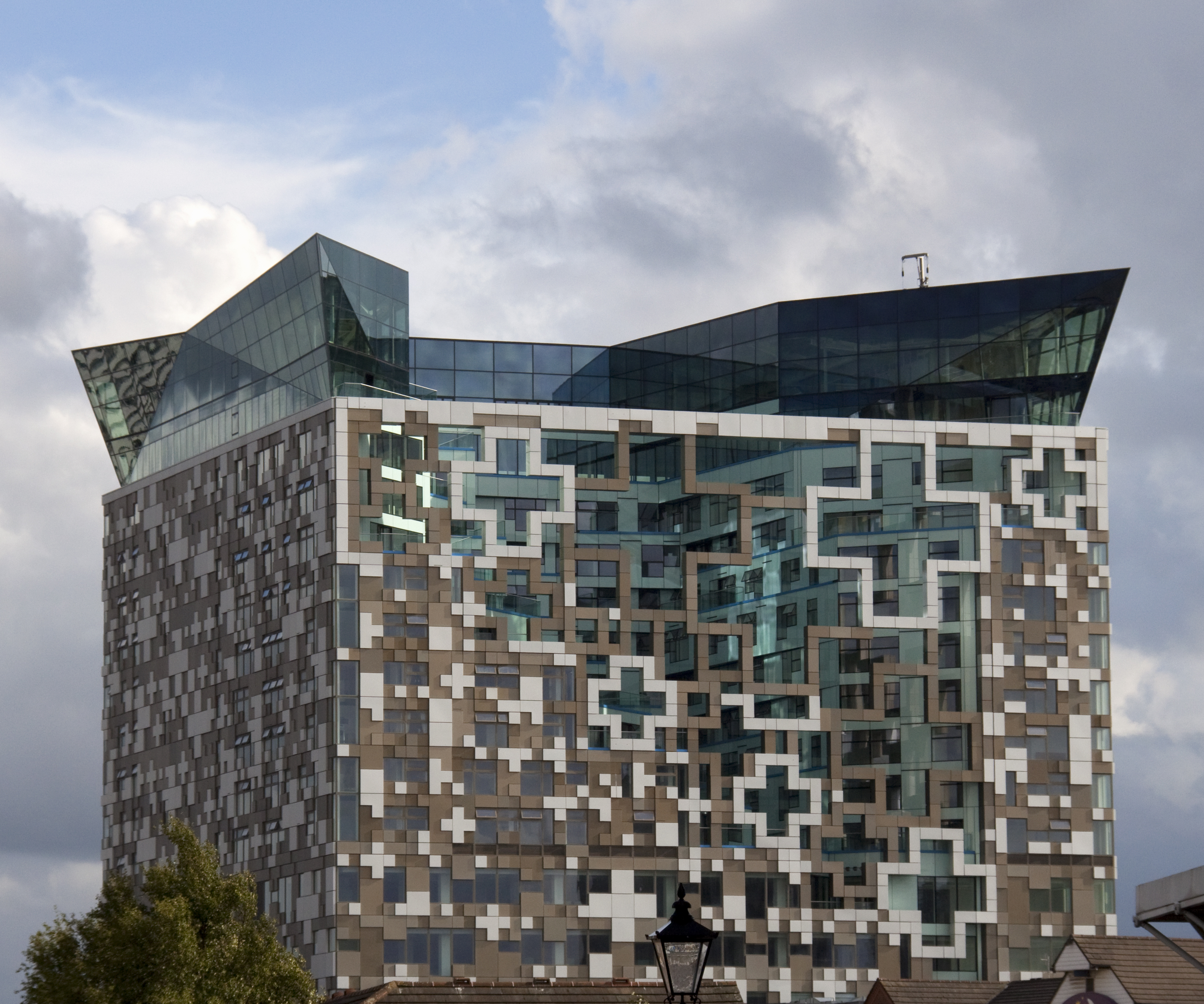 The Cube